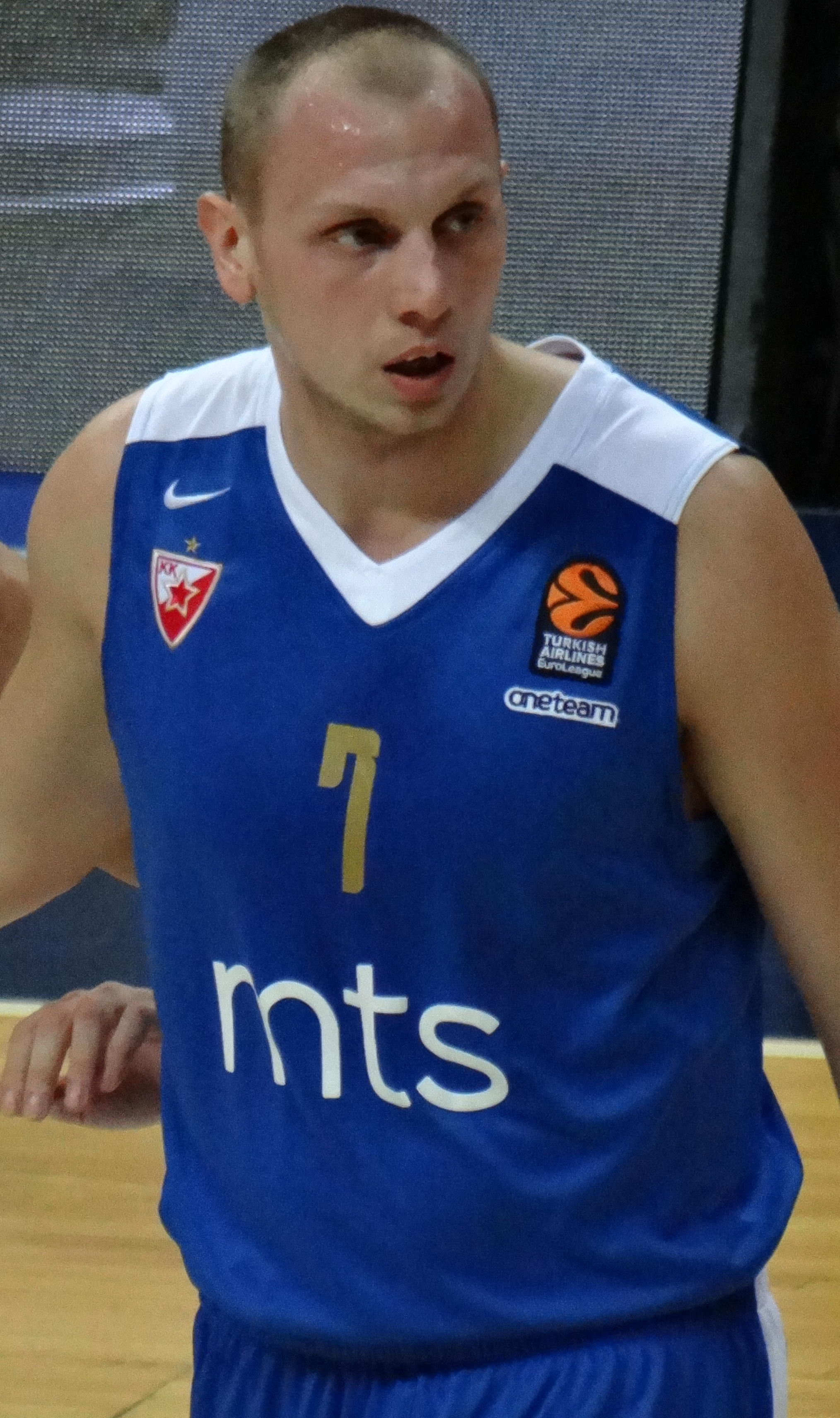 Dejan Davidovac 7 KK Crvena zvezda 20171219